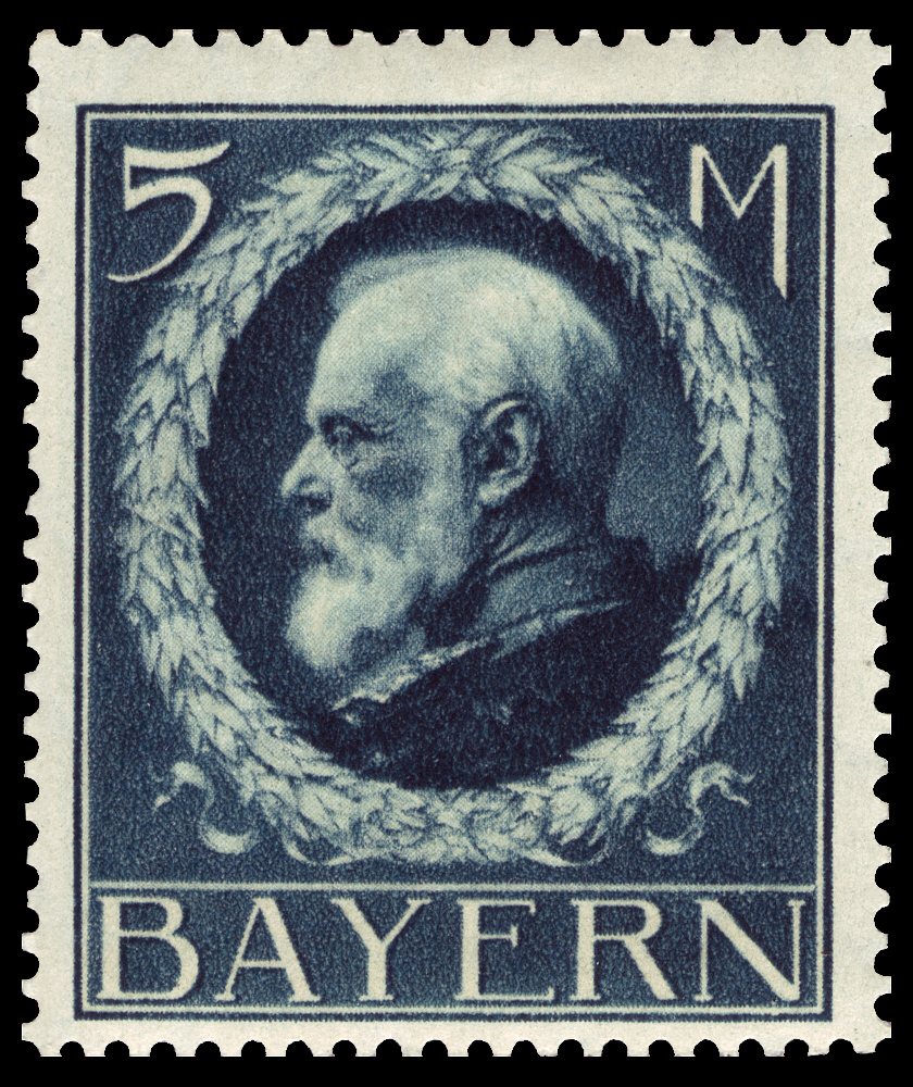 series of stamps of Bavaria, Ludwig III, King of Bavaria (1845-1921) Graphics by Prof. Firle Ausgabepreis: 5 Mark First Day of Issue / Erstausgabetag: 30. März 1915 Michel-Katalog-Nr: 107 (Altdeutschland (Bayern))